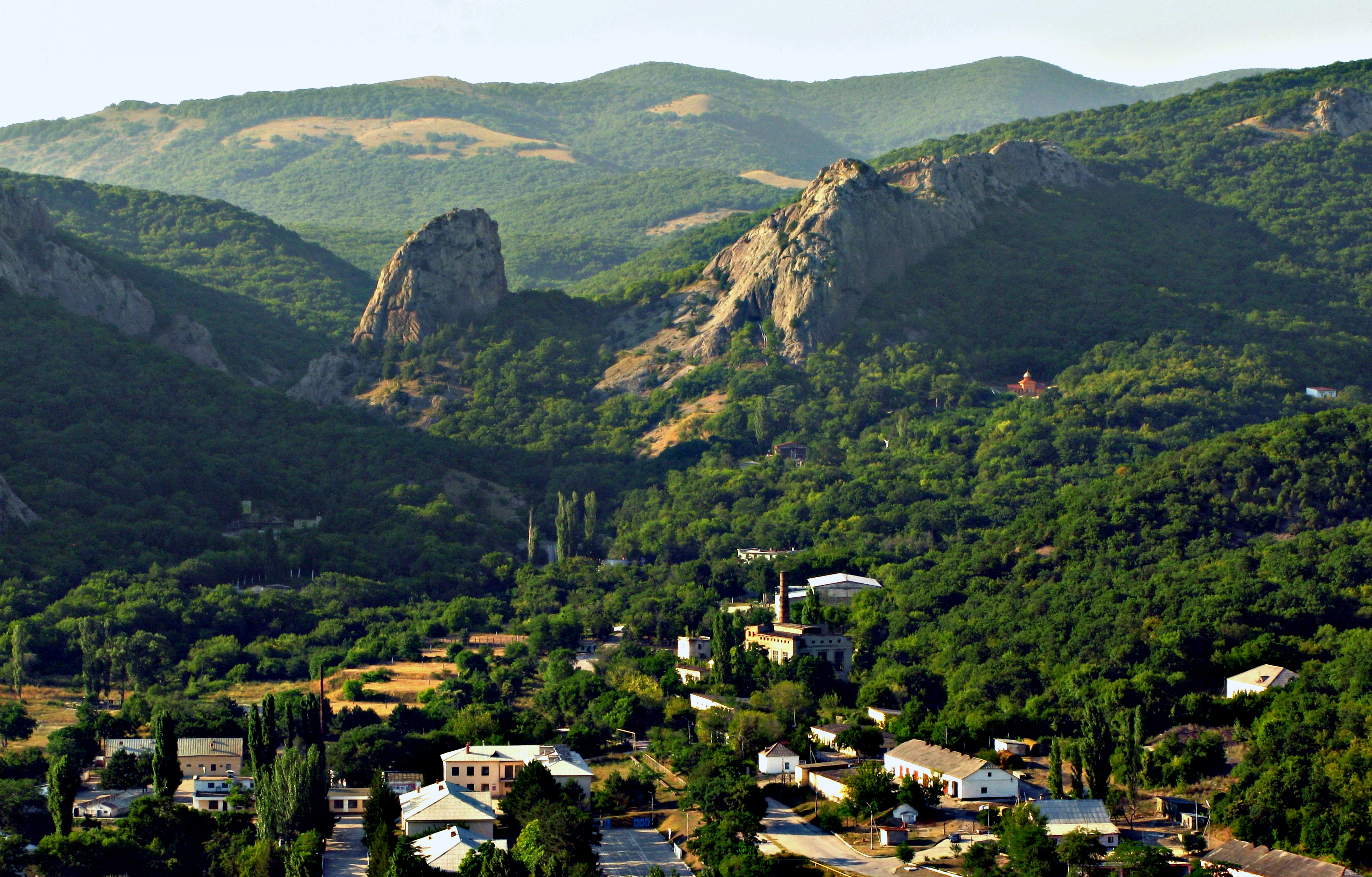 Kyzyl-Tash. Crimea. Ukraine. Crimean mountains.